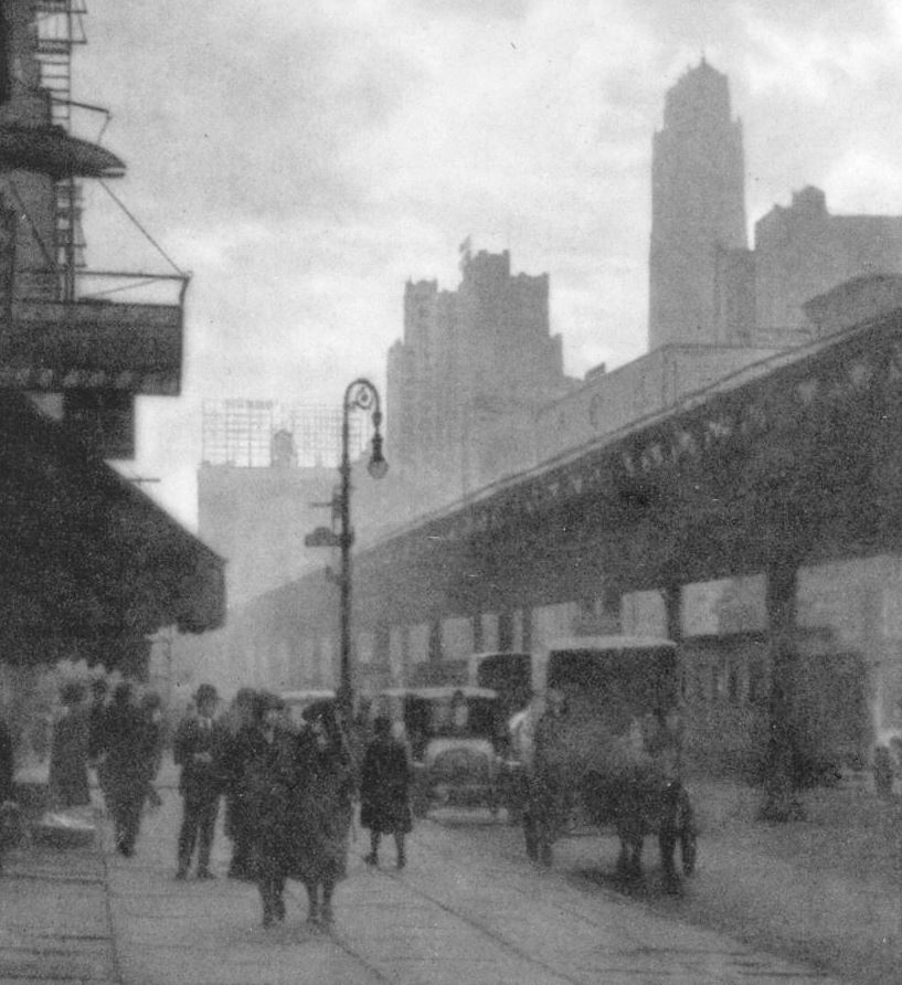 Sixth Avenue, New York City, 1922